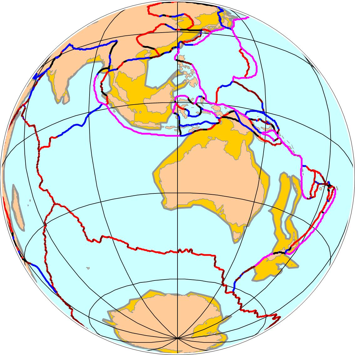 Australian tectonic plate. Orthogonal projection (as seen from deep space).